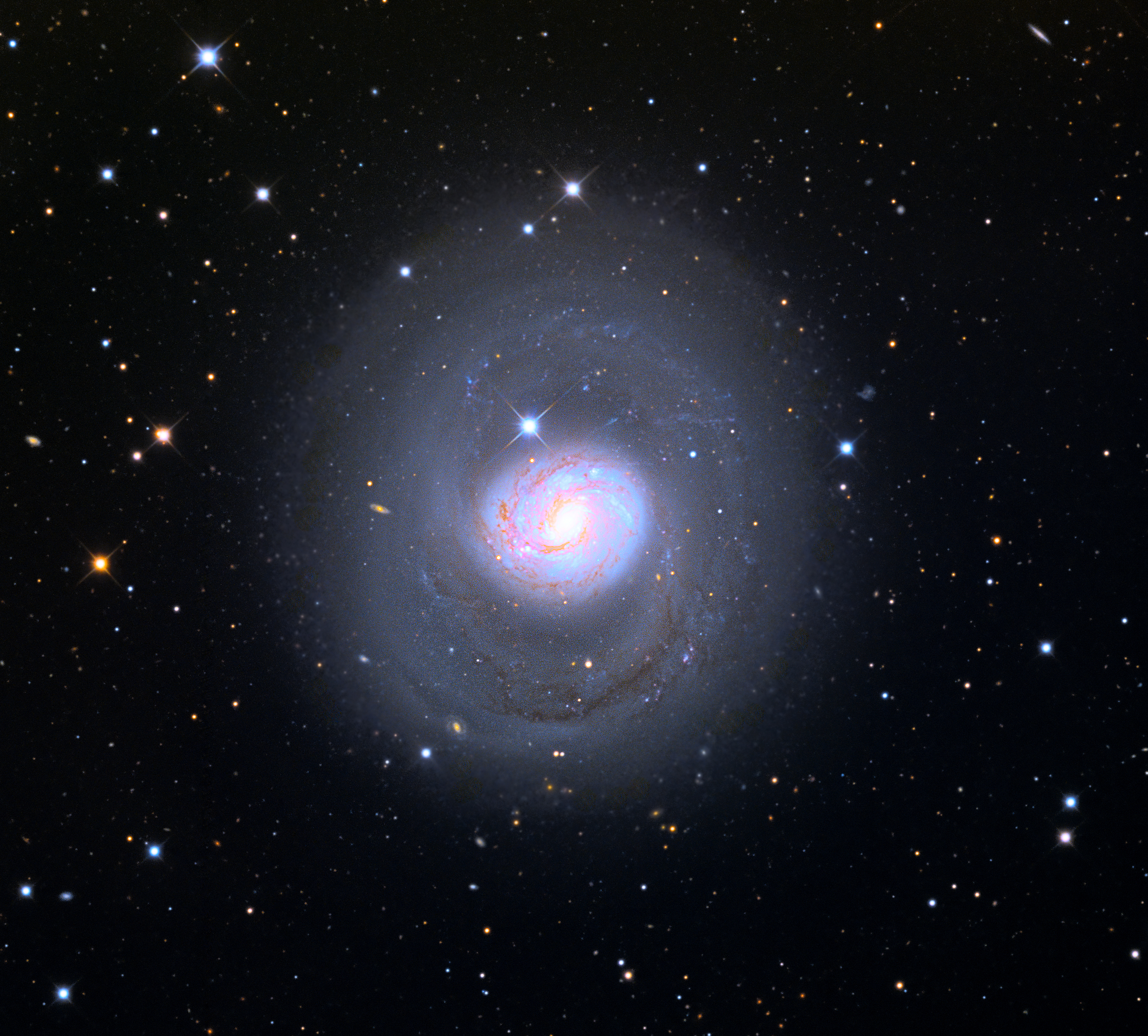 Messier 77 (M77) barred spiral galaxy